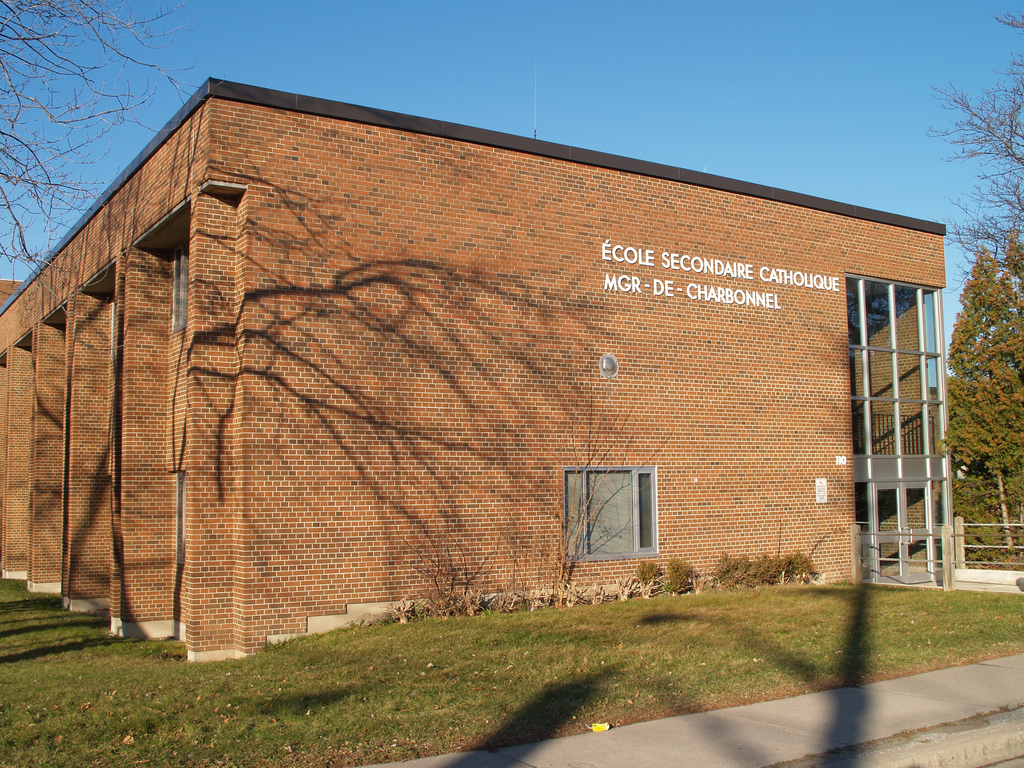 École secondaire catholique Monseigneur-de-Charbonnel ("Monsignor de Charbonnel Catholic Secondary School")